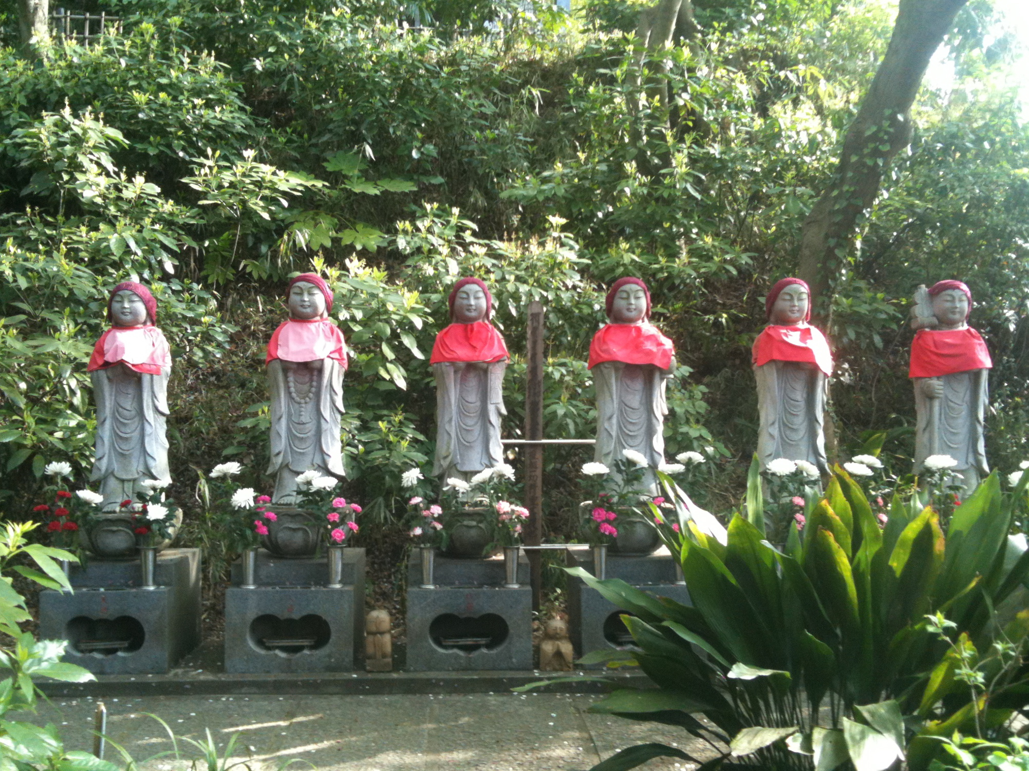 Six Jizo statues at Takahatsu-Fudo temple in Tokyo, Japan, symbolizing the six realms of rebirth, and Jizo's efforts to rescue beings from each one.